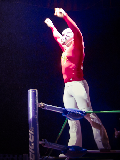 Wrestler La Mascara posing before a match